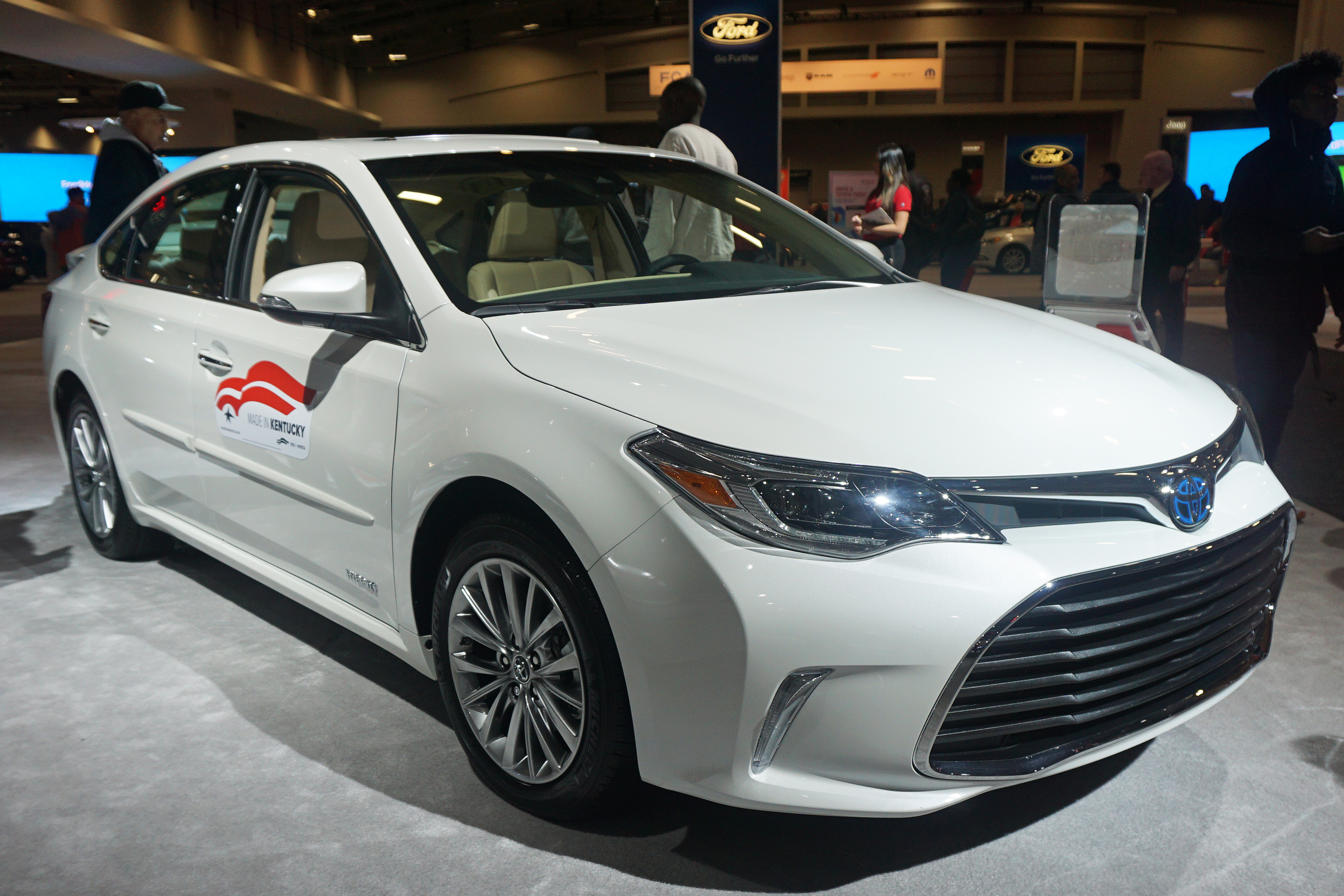 Toyota Avalon Hybrid exhibited at the 2017 Washington Auto Show, DC.